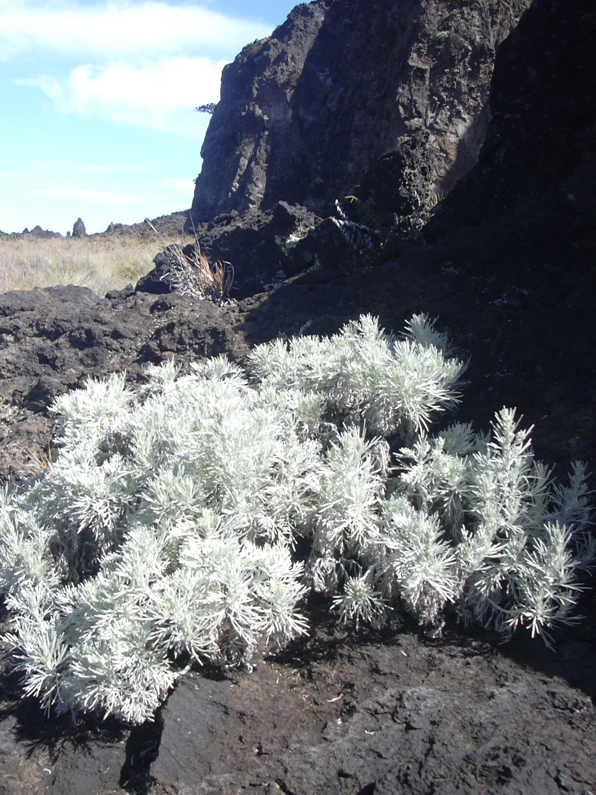 Artemisia mauiensis (habit). Location: Maui, Waikau trail Haleakala National Park